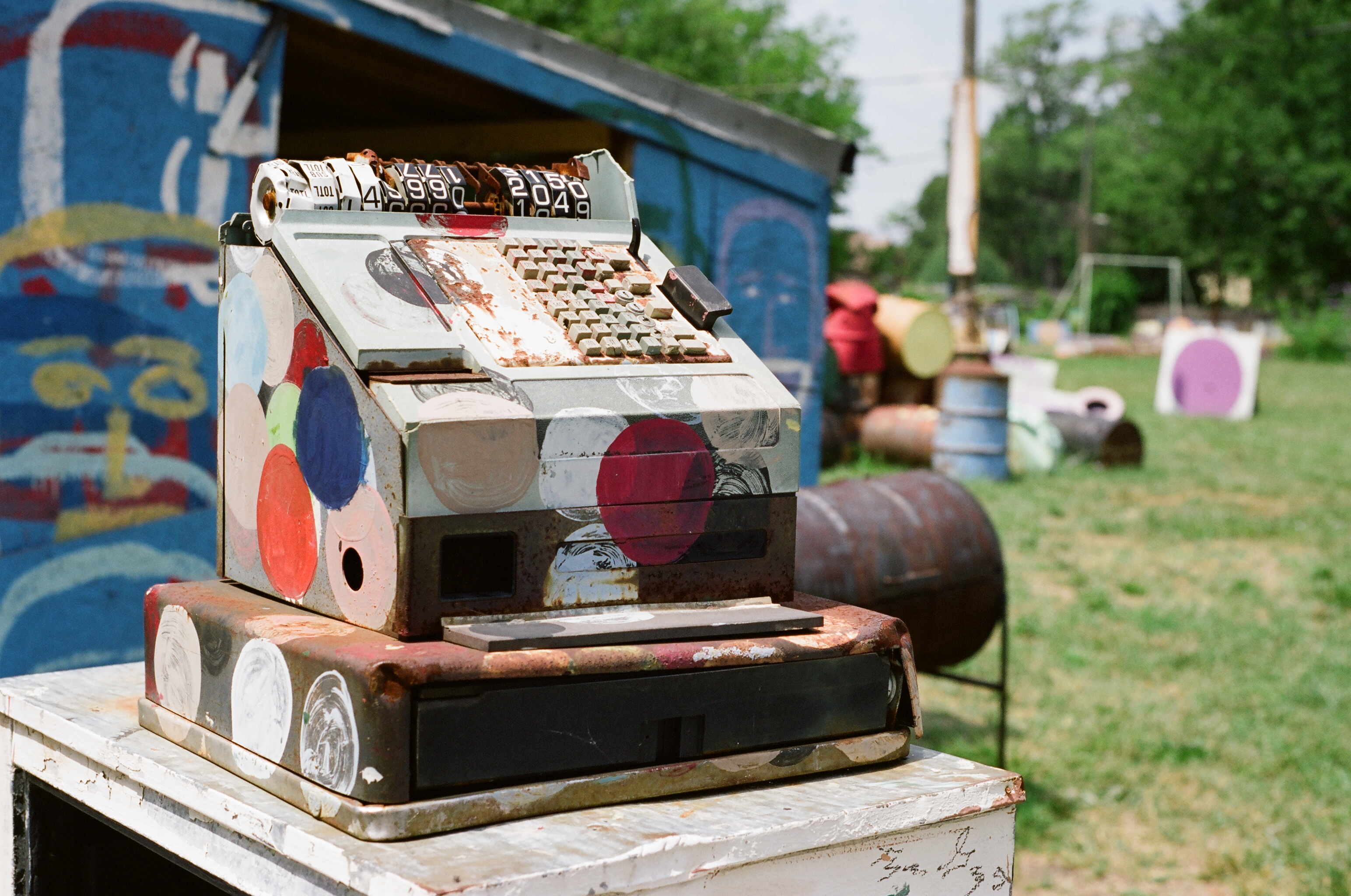 Cash Register, The Heidelberg Project, Detroit, Michigan